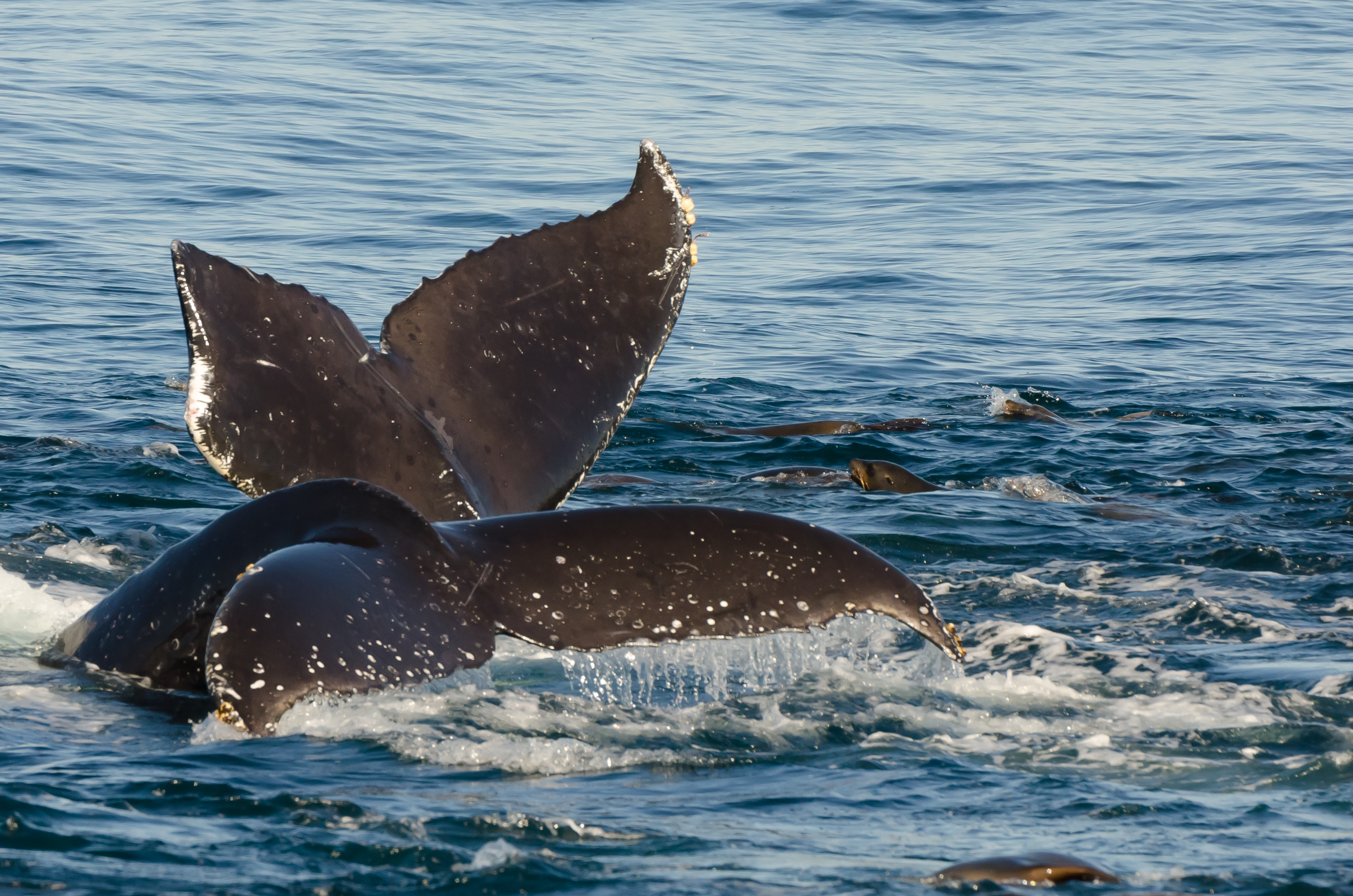 Humpback whales remain in Monterey in unprecedented numbers